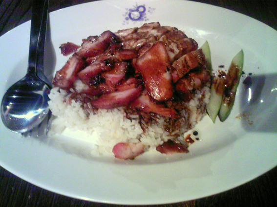 char siew rice